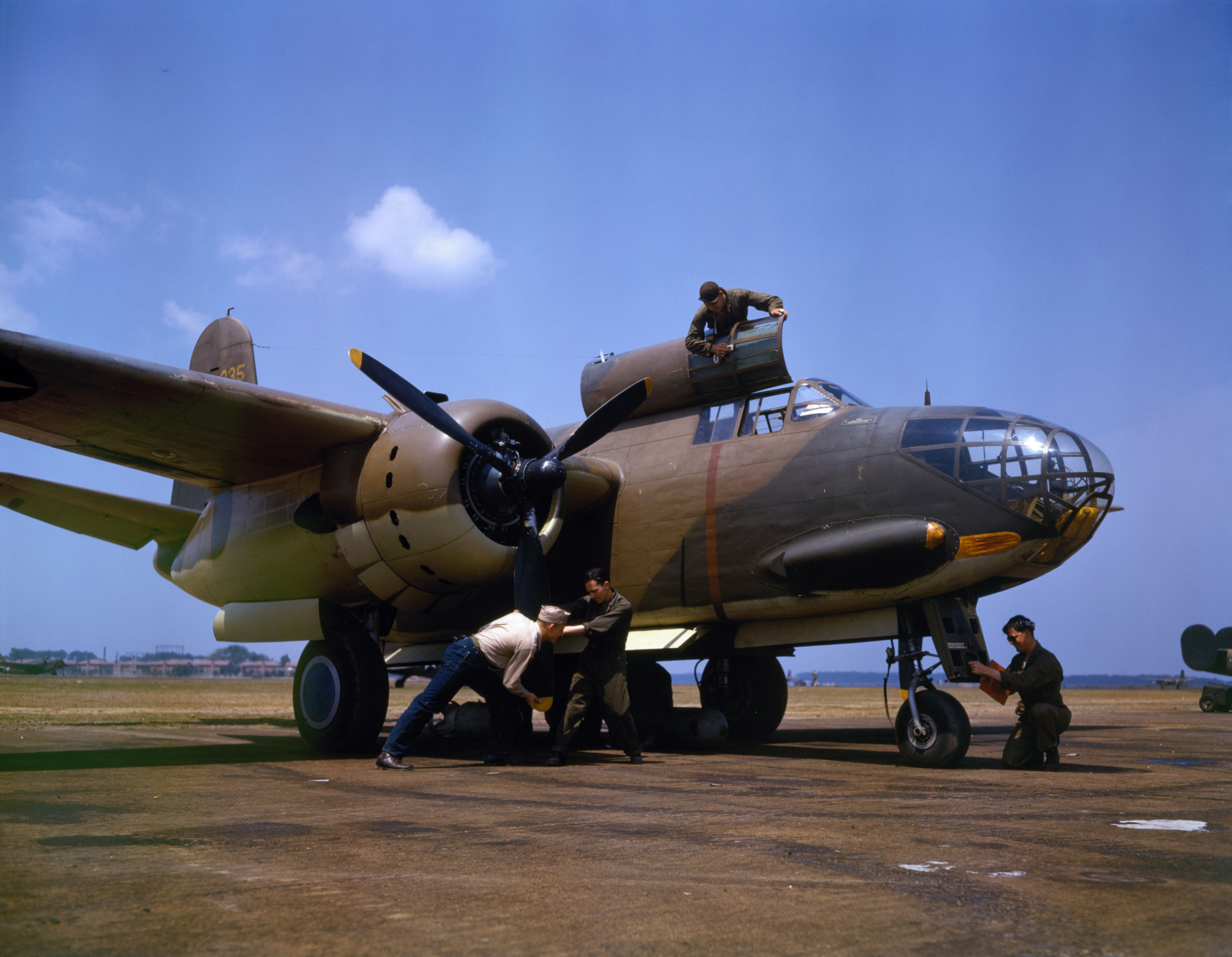 A Douglas A-20C-BO Havoc at Langley Field, Virginia (USA), in July 1942. Since the aricraft wears the number "635" and is painted in a British camouflage scheme this aircraft is most probably the A-20C-BO s/n 41-19635. This Havoc had been license built under the Lend-Lease-Agreement for the Royal Air Force, but most of these aircraft were diverted to the USAAF.